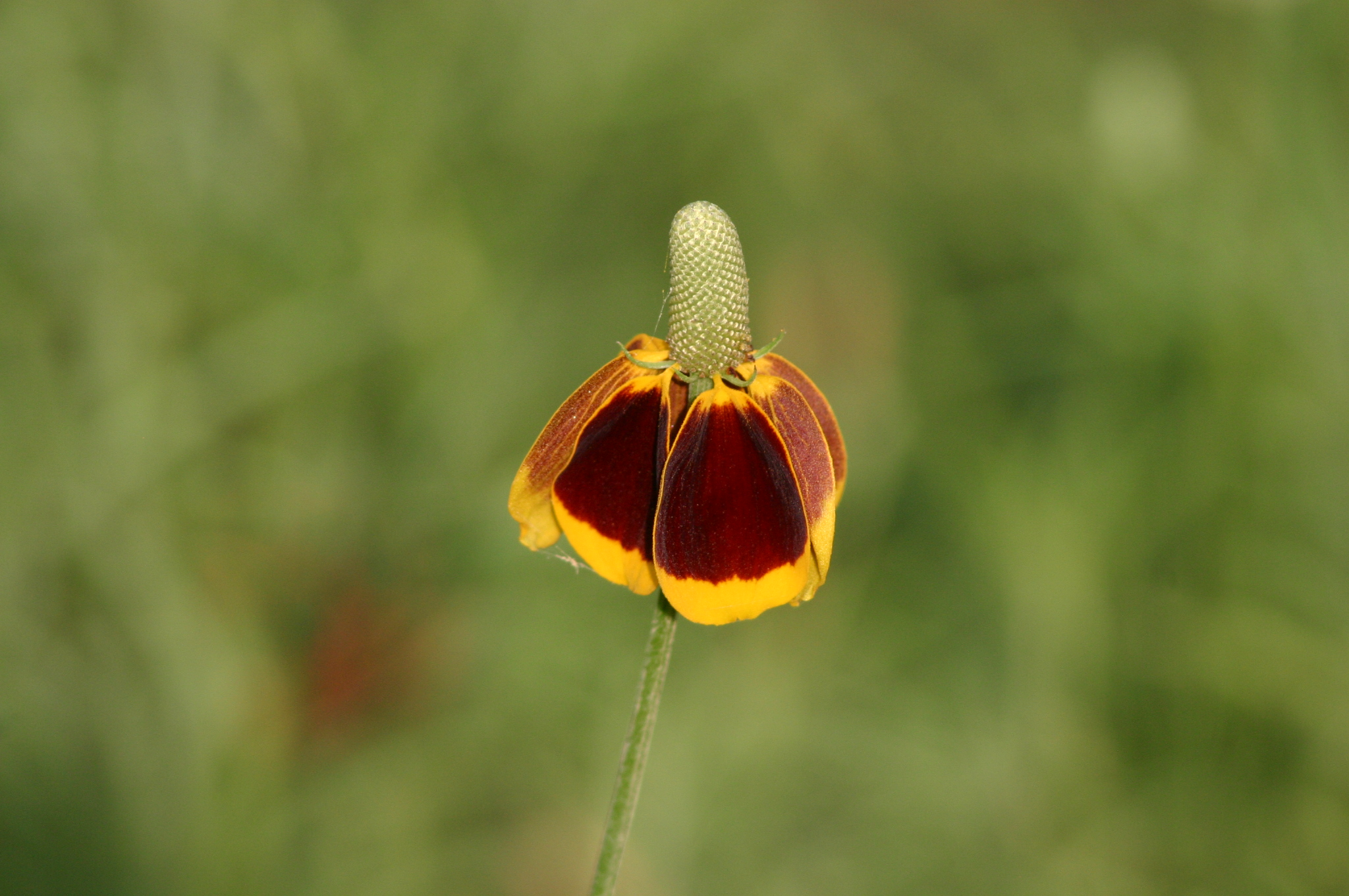 Mexican Hat wildflower (Ratibida columnifera)